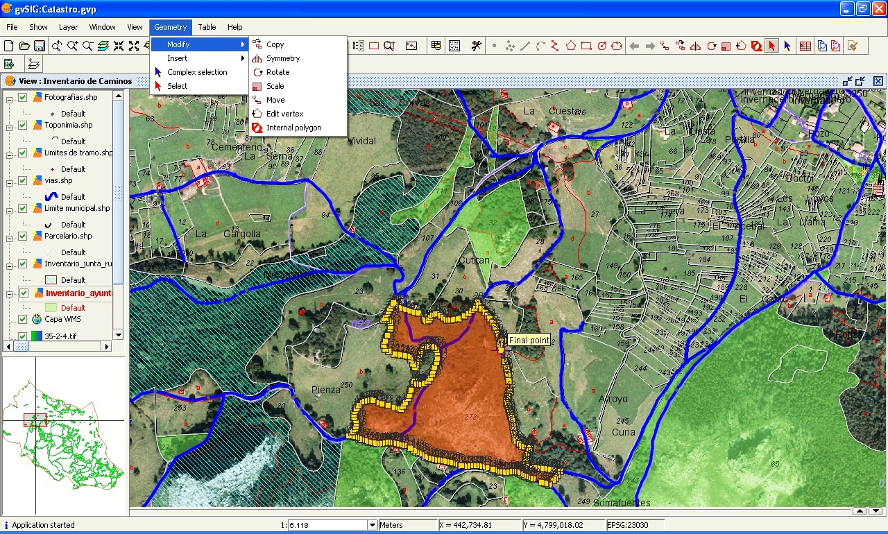 Editing a cartography layer with the gvSIG 1.0